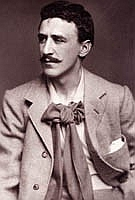 Artist Charles Rennie Mackintosh (1868-1928)